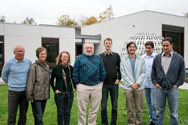 Description at MFO: On the Photo: * Nagel, Rainer (left) * Eisner, Tanja * Ziegler, Tamar * Bergelson, Vitaly * Haase, Markus * Tao, Terence C. * Farkas, Balint * Frantzikinakis, Nikos (right) * Occasion:Arbeitsgemeinschaft: Ergodic Theory and Combinatorial Number Theory * Location: Oberwolfach * Author: Vetter, Ivonne (photos provided by Vetter, Ivonne) * Source: MFO * Year: 2012 * Copyright: MFO * Photo ID: 17057